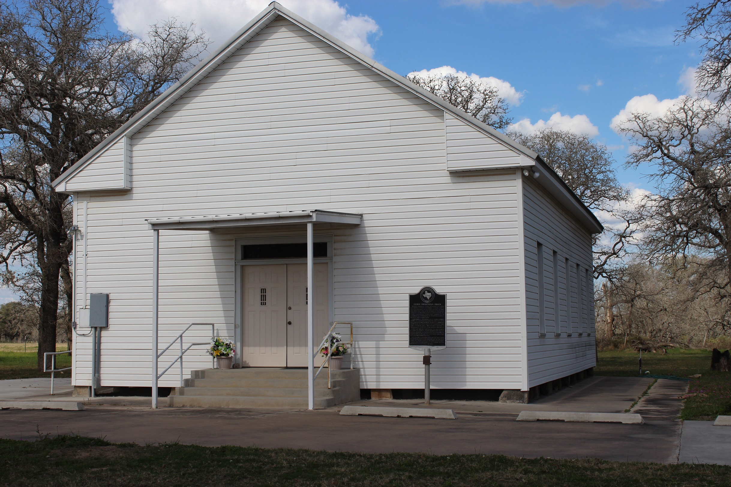 Pilgrim Presbyterian Church. The early Gonzales County settlement of Pilgrim was named in honor of Thomas J. Pilgrim, a noted area educator who had received a Republic of Texas land grant here in 1838. In 1881 residents of the pioneer community established a Union Sunday School in a nearby schoolhouse (1.5 miles S). Early members of the congregation represented the Presbyterian, Baptist, Methodist and Quaker faiths. On November 23, 1883, several Union Church members formed this congregation under the direction of the Rev. J. J. Hodges of Wrightsboro. Begun as a Cumberland Presbyterian Fellowship with the congregational name of Pilgrim Lake, it was an early member of the Guadalupe Presbytery of San Antonio and Austin. A sanctuary was built here in 1886 on land donated by Crawford Burnett. Church members were assisted by local residents in construction and furnishing the building, which became the site of many early camp meetings and summer revivals. Despite a declining area population, the Pilgrim Presbyterian Church has remained active and now serves as a focal point of the surrounding rural region and as a reminder of the pioneer settlers whose descendants still live here. #4017